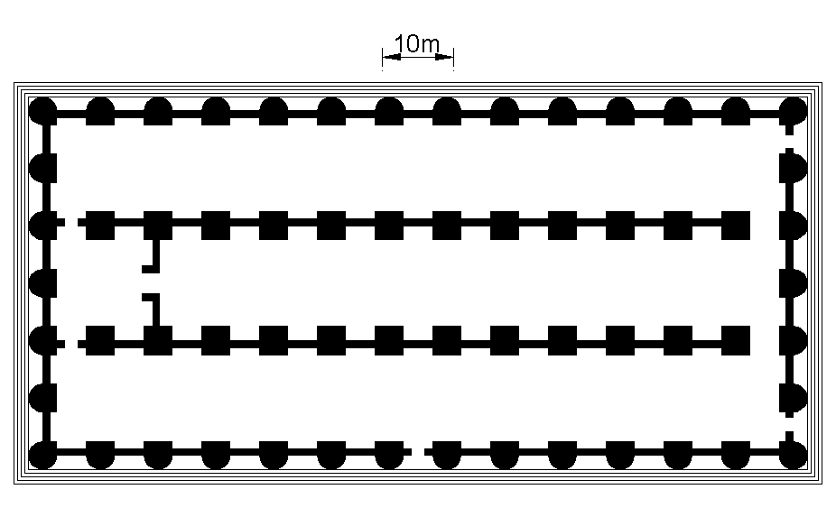 Agrigento. Plan of temple B (Olympieion = Temple of Zeus)